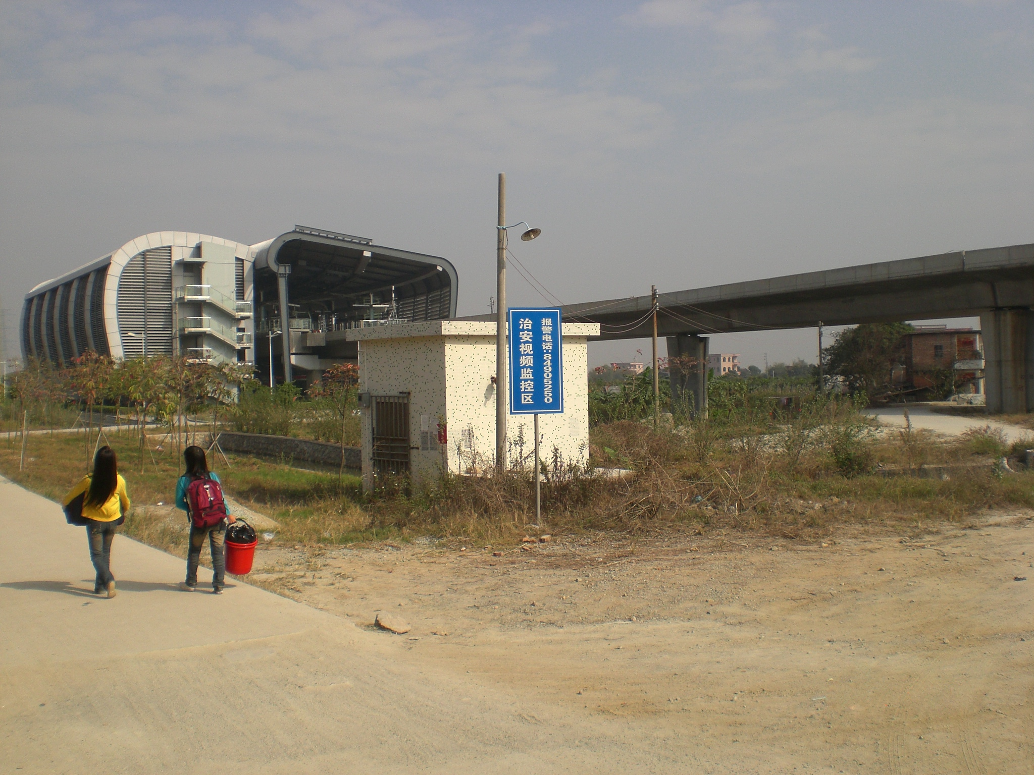 Dong Chong Town Metro Station along Line 4 of Guangzhou Metro.